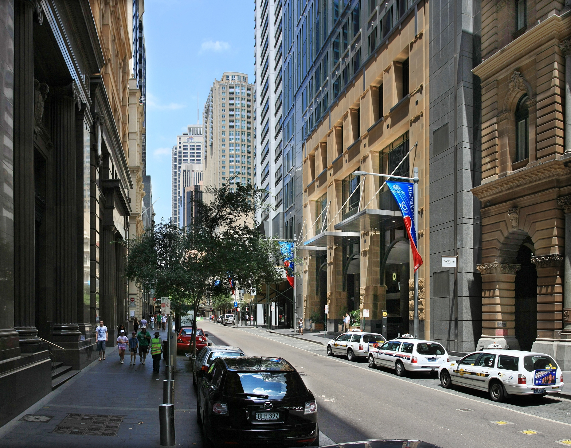 Pitt Street Sydney (Circa 2010)